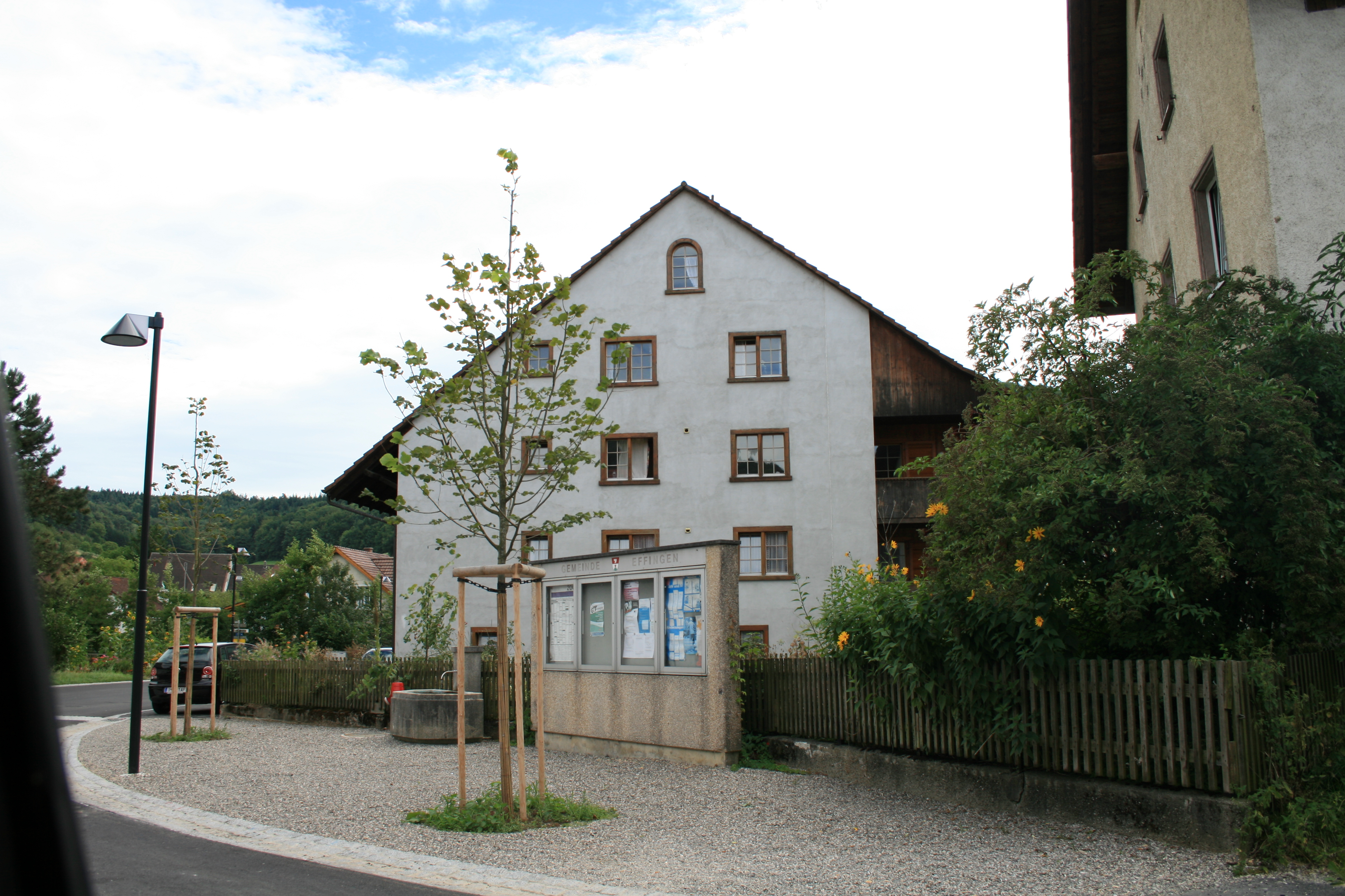 Village of Effingen AG, Switzerland